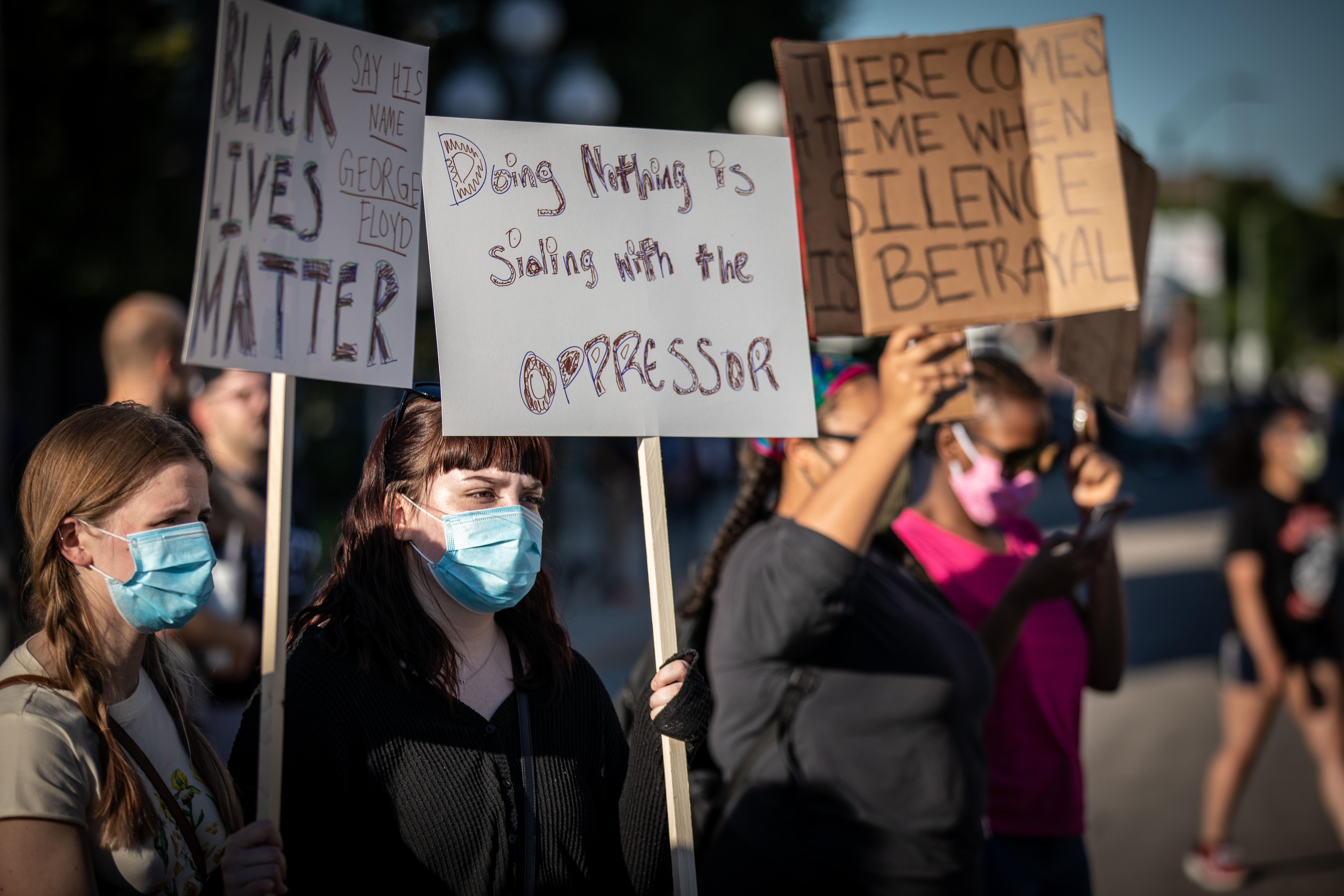 Well over a thousand people gathered in downtown Des Moines, joining other protests around the country demanding justice over the murder of George Floyd by a police officer in Minneapolis. After the organized protest, some people went on to confront police and damage nearby businesses.